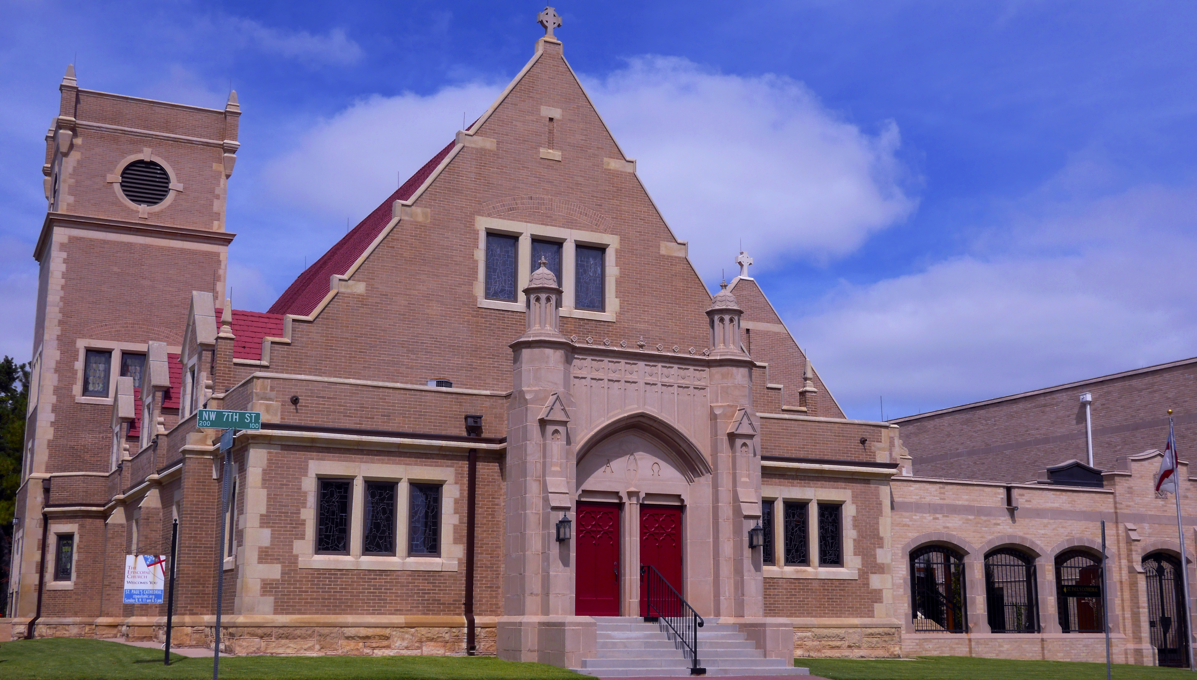 St. Paul